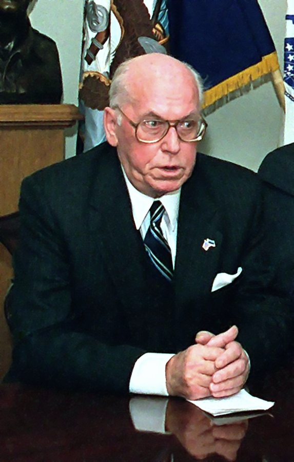 Lennart Meri, President of Estonia, during a visit to the Pentagon on January 15, 1998.